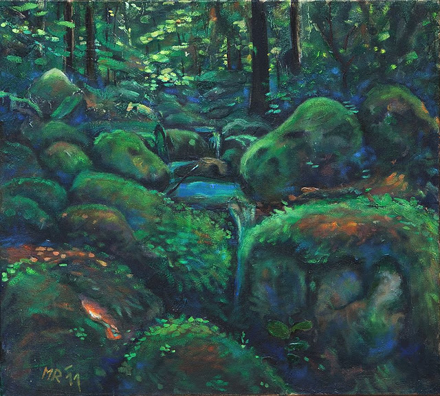 Painting by Michal Risian